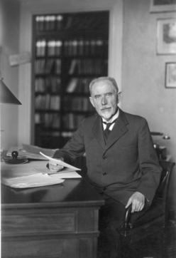 Søren Peter Lauritz Sørensen (1868-1939). Chemist from Denmark.